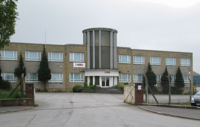 Clay Cross - Tower Business Park